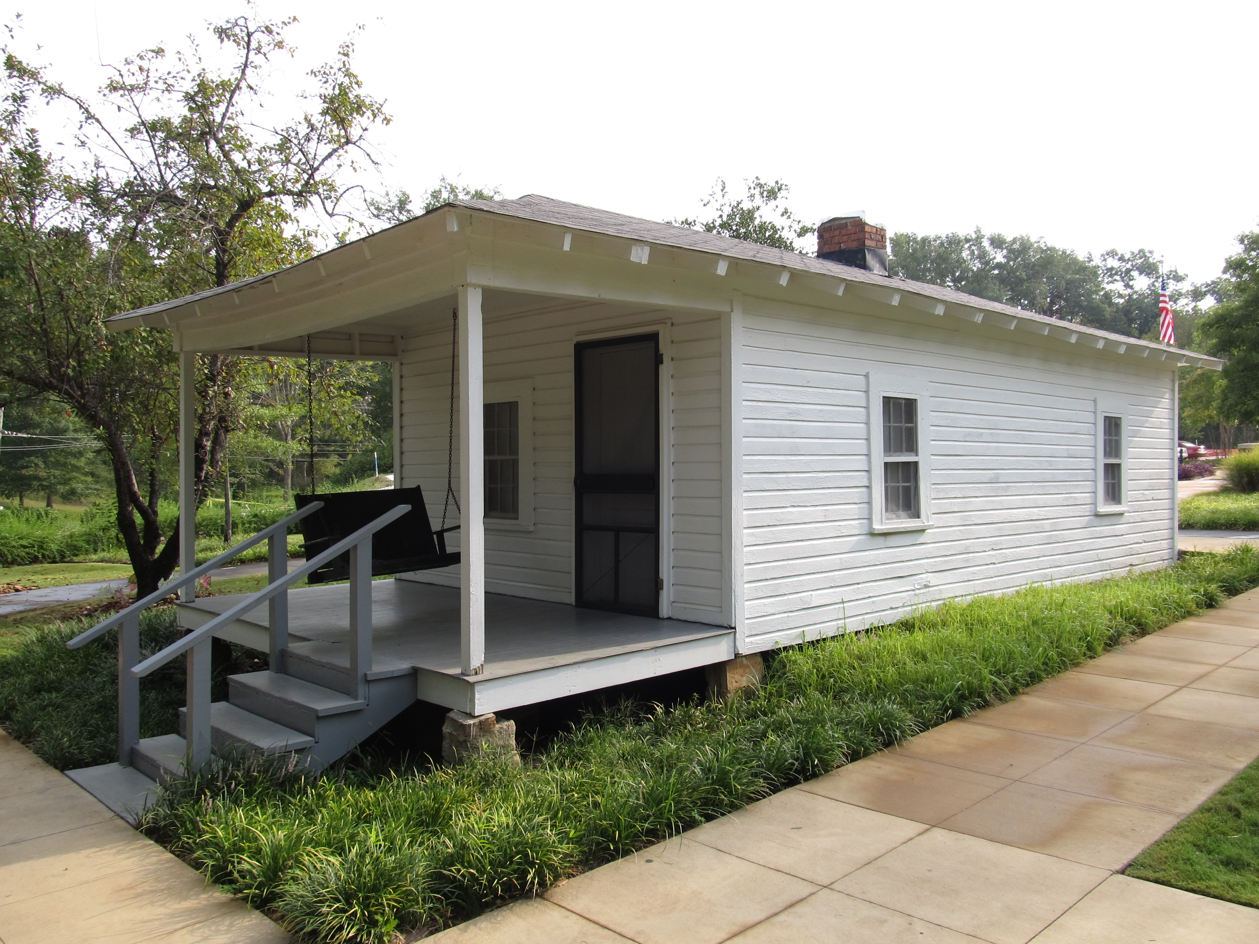 Elvis Aaron Presley (January 8, 1935 – August 16, 1977) was an American singer and actor. A cultural icon, he is commonly known by the single name Elvis. One of the most popular musicians of the 20th century, he is often referred to as the "King of Rock and Roll" or simply "the King". Born in Tupelo, Mississippi, Presley moved to Memphis, Tennessee, with his family at the age of 13. He began his career there in 1954, working with Sun Records owner Sam Phillips, who wanted to bring the sound of African American music to a wider audience. Accompanied by guitarist Scotty Moore and bassist Bill Black, Presley was the most important popularizer of rockabilly, an uptempo, backbeat-driven fusion of country and rhythm and blues. RCA Victor acquired his contract in a deal arranged by Colonel Tom Parker, who went on to manage the singer for over two decades. Presley's first RCA single, "Heartbreak Hotel", released in January 1956, was a number-one hit. He became the leading figure of the newly popular sound of rock and roll with a series of network television appearances and chart-topping records. His energized interpretations of songs, many from African American sources, and his uninhibited performance style made him enormously popular—and controversial. Presley is regarded as one of the most important figures of 20th-century popular culture. He had a versatile voice and unusually wide success encompassing many genres, including country, pop ballads, gospel, and blues. He is the best-selling solo artist in the history of popular music. Nominated for 14 competitive Grammys, he won three, and received the Grammy Lifetime Achievement Award at age 36. He has been inducted into multiple music halls of fame.